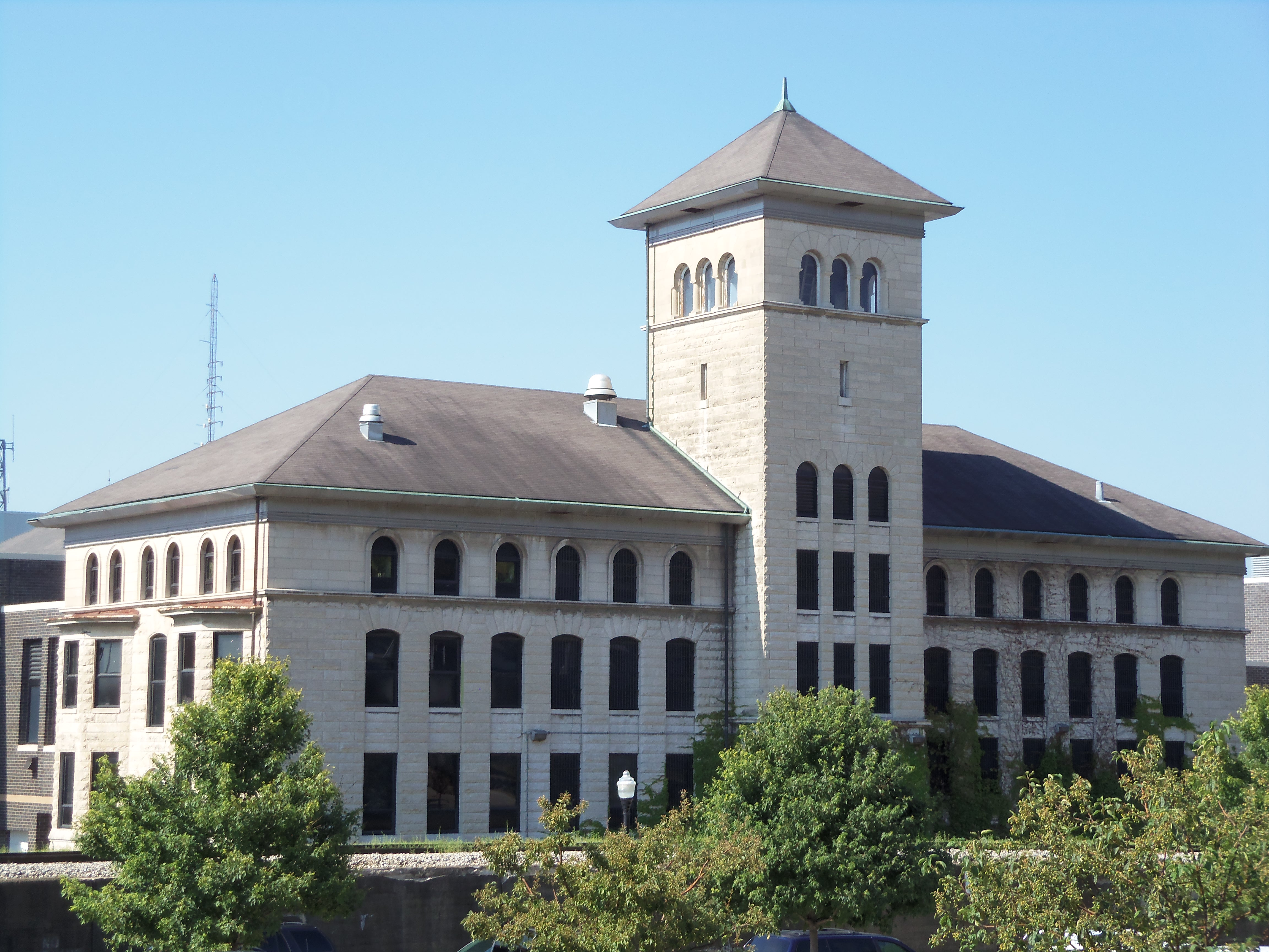 The oldest section of Scott County Jail in Davenport, Iowa is listed on the National Register of Historic Places. The photo shows the north side of the building above the elevated railroad bed